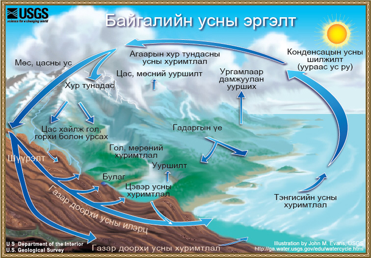 Water-Cycle Diagram (Mongolian) Монгол: Байгалийн усны эргэлт (Монгол)